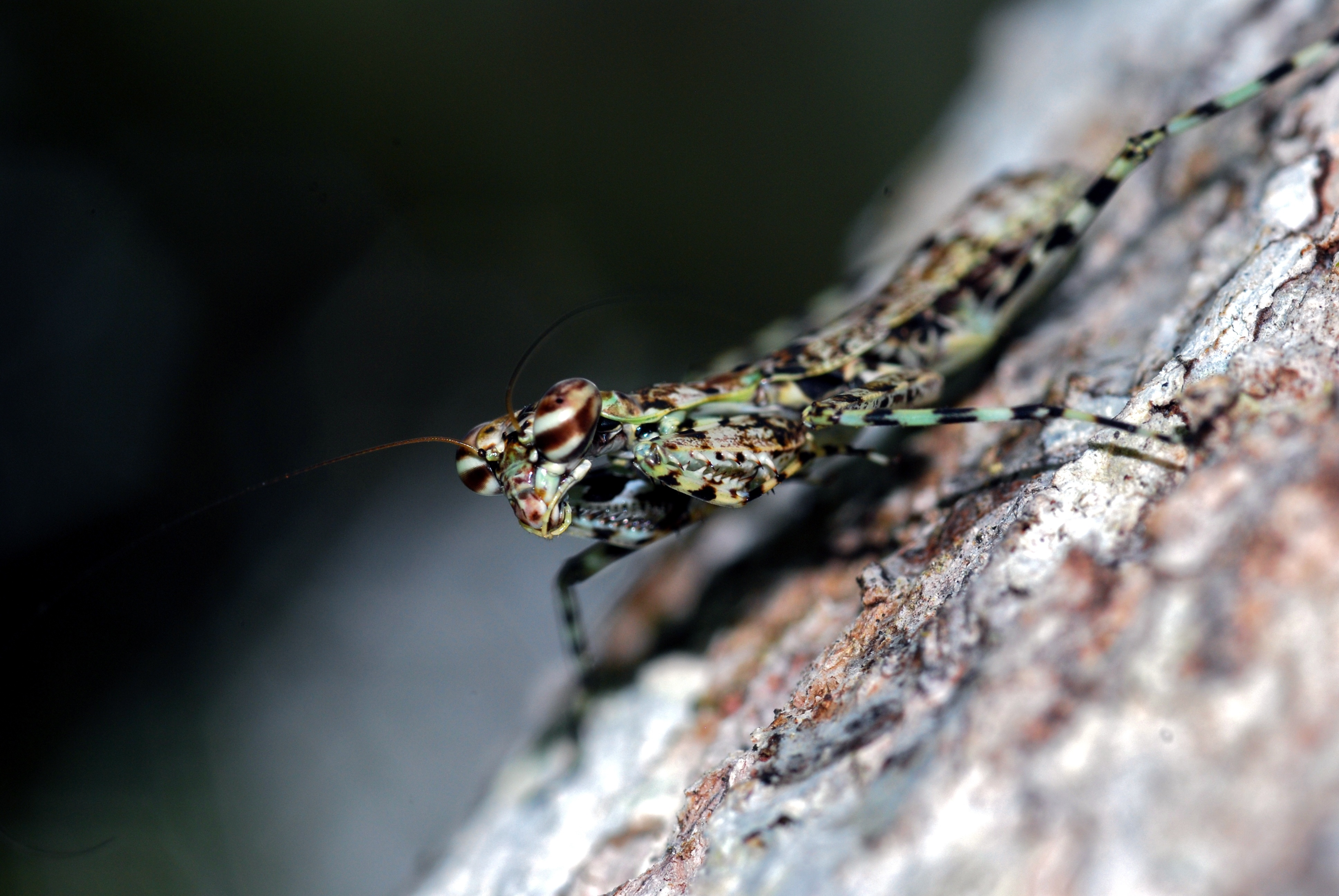 Cockscomb Wildlife Sanctuary, BELIZE